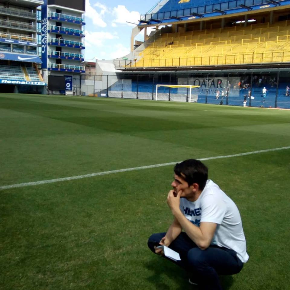 Director Leandro Baquela (Argentine-51%)